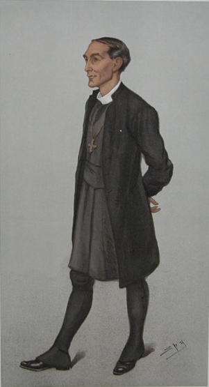 Caricature of Arthur Winnington-Ingram, Bishop of London.